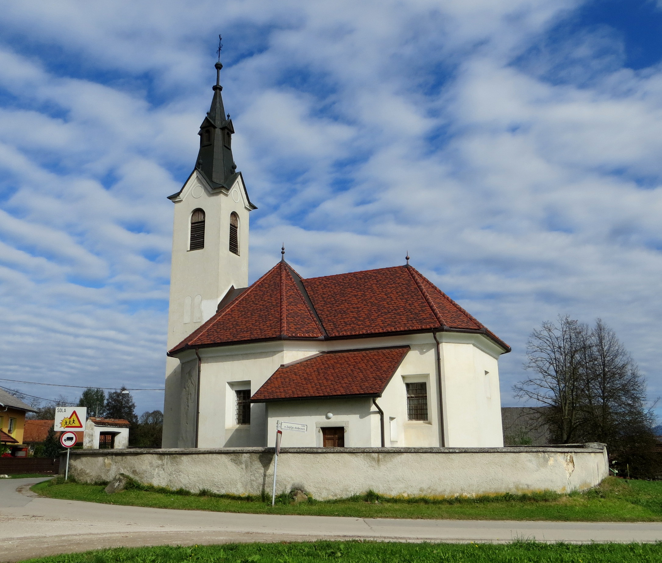 Church in Zgornja Zadobrova, City Municipality of Ljubljana, Slovenia